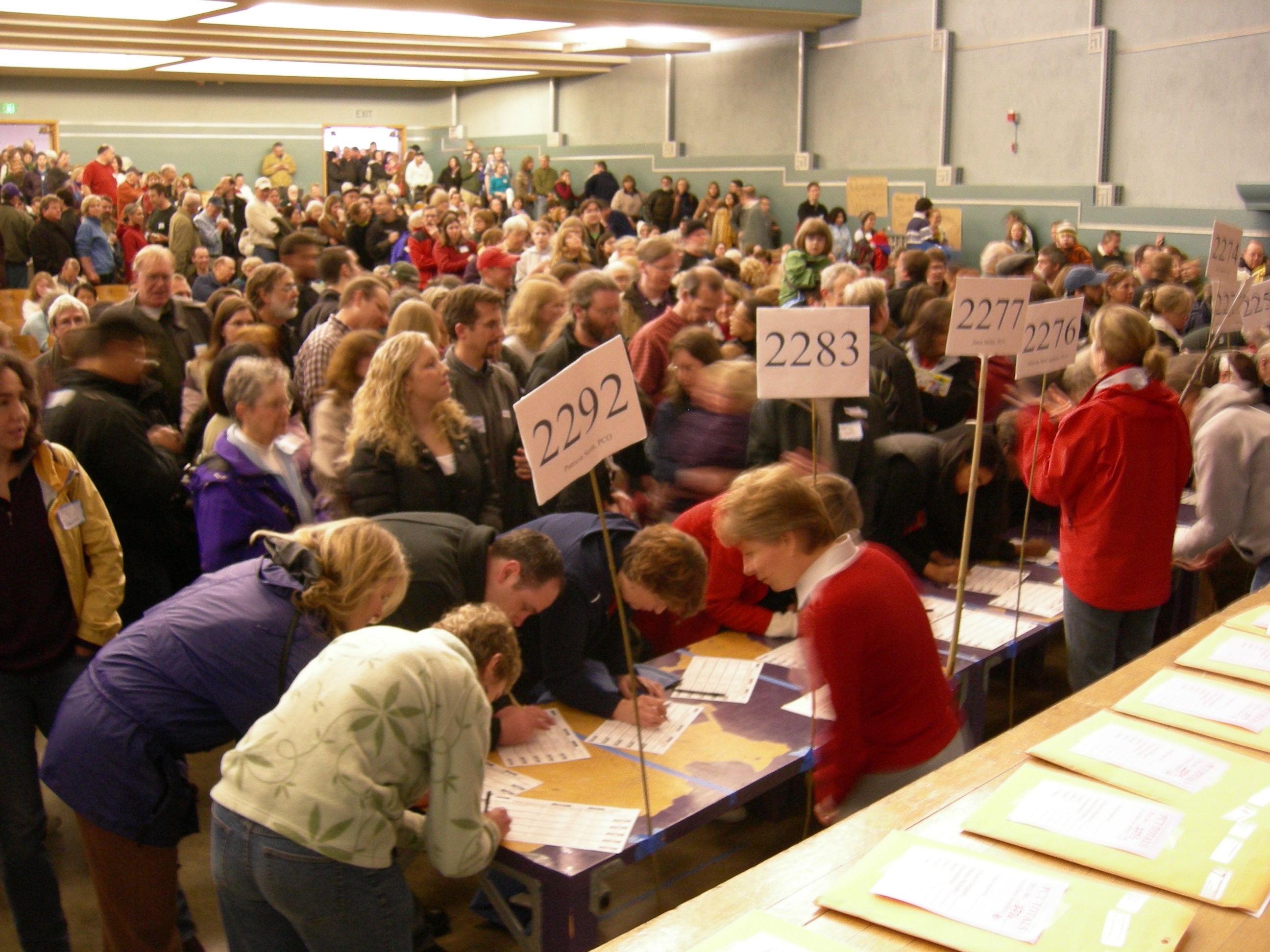 Part of the 2008 Washington State Democratic Party Caucus. This is at the Eckstein Middle School, Seattle, Washington. The precincts meeting there were part of the 46th Legislative District. Technically, each precinct caucuses separately, but here the school auditorium is being used to check in attendees from multiple precincts.